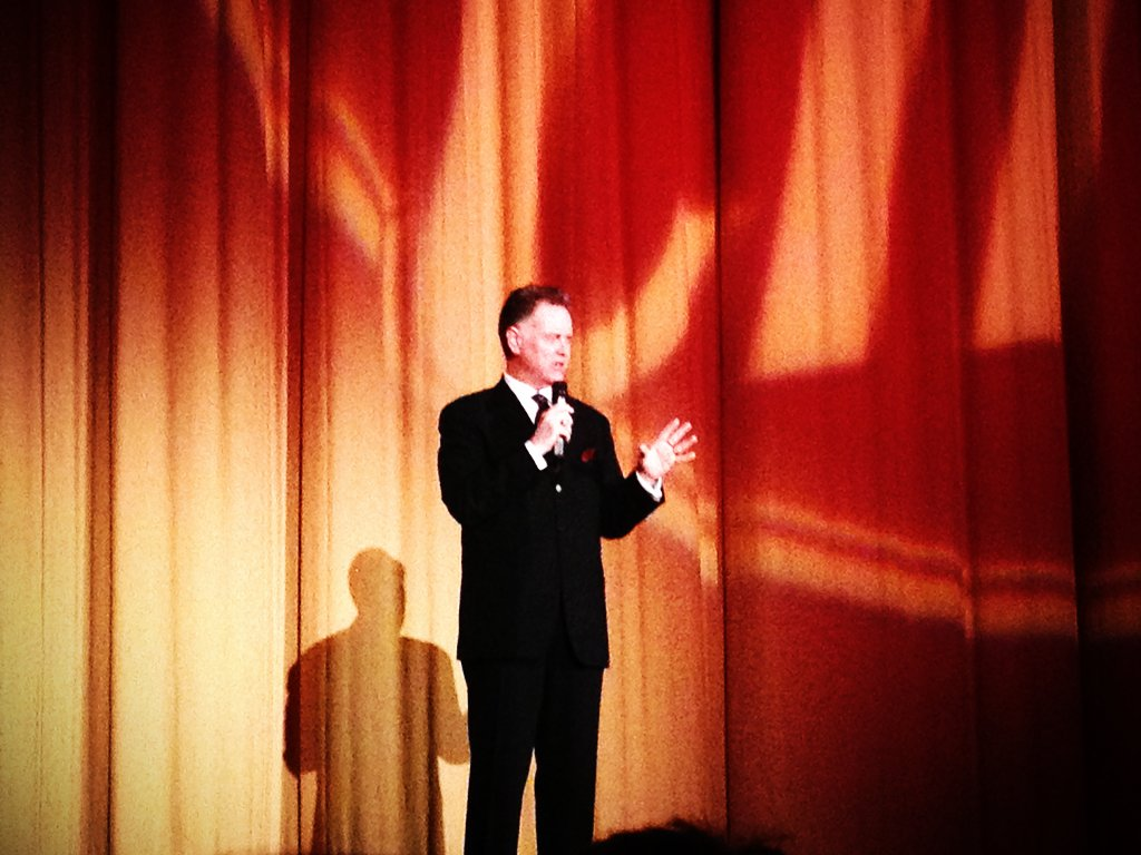 Taken with picplz.